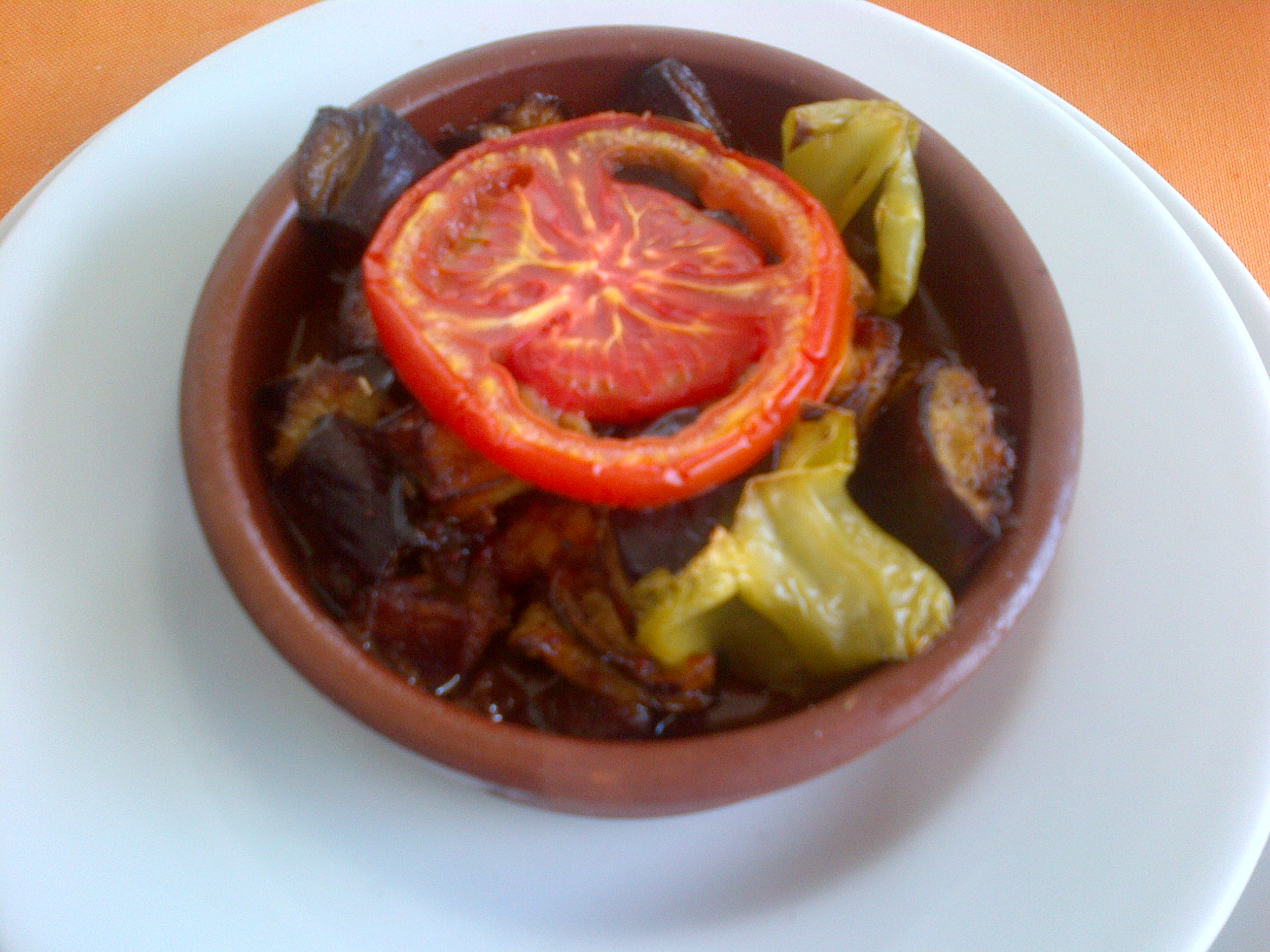 "Türlü güveç" is a Turkish dish consisting of vegetables and meat (generally veal or beef) cooked in an earthenware pot (called "güveç") in the oven.